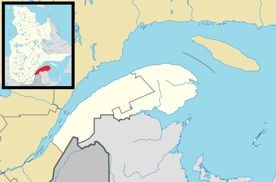 Map of eastern Québec Province for use in location map templates.